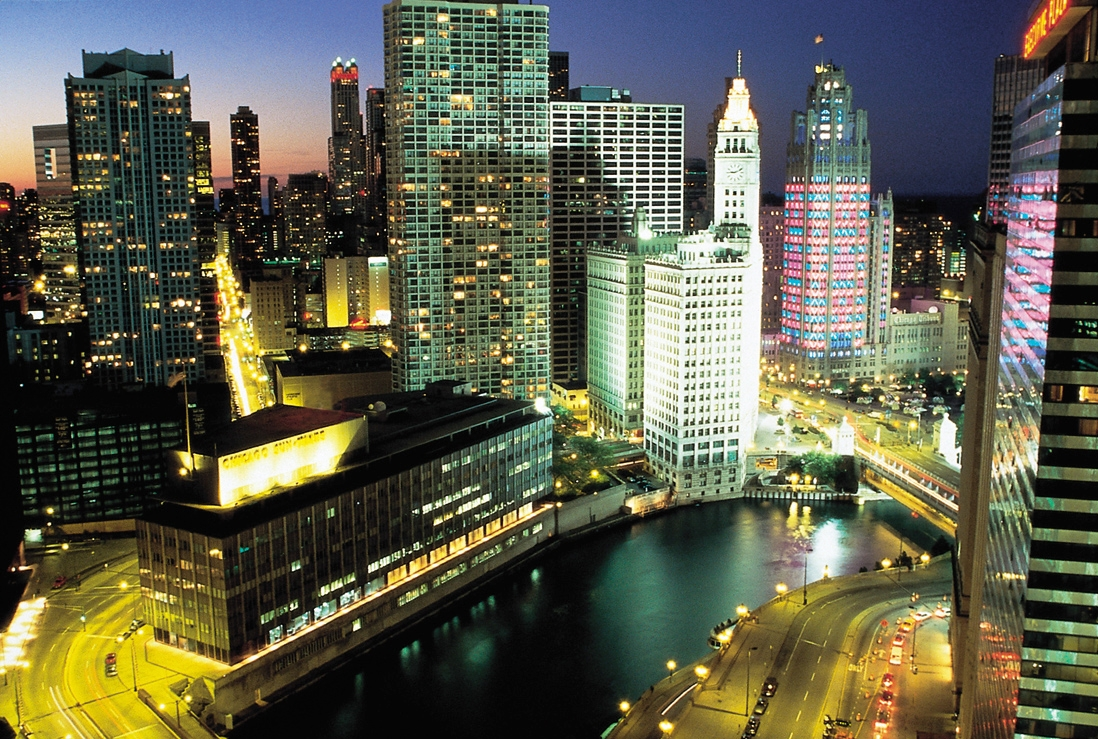 Downtown Chicago, Illinois at night. The small building on the left (the old Chicago Sun-Times Building) was demolished for Trump International Hotel and Tower (Chicago).